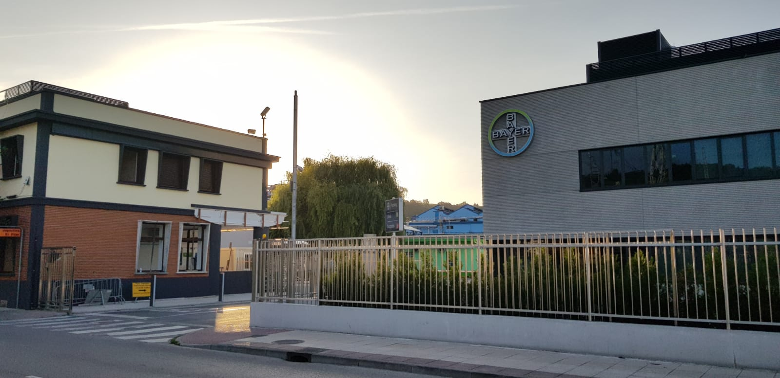 Felguera Bayer Factory in Langreo, north Spain